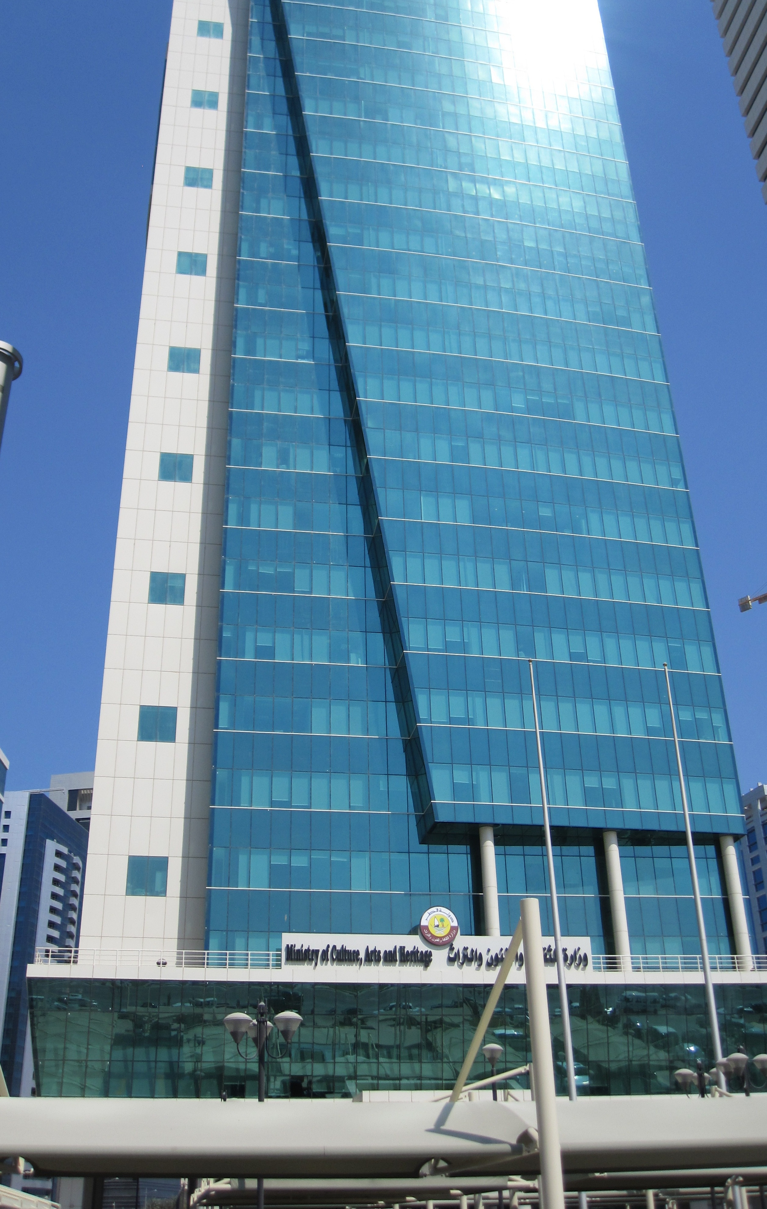 Arts, culture and heritage ministry, Diplomatic Quarter, Doha